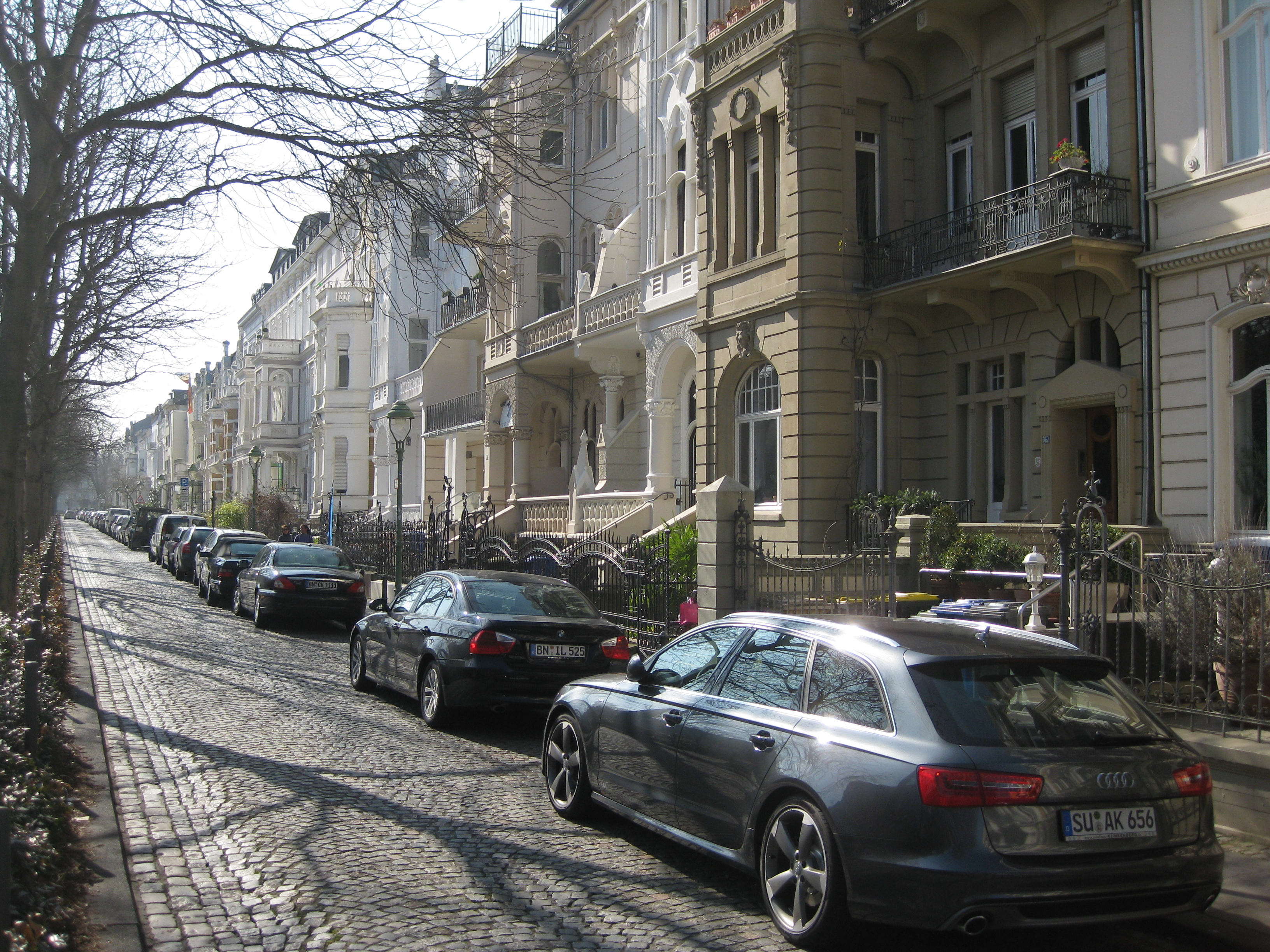 Germany, Bonn, Poppelsdorfer Allee: Gründerzeit facades.